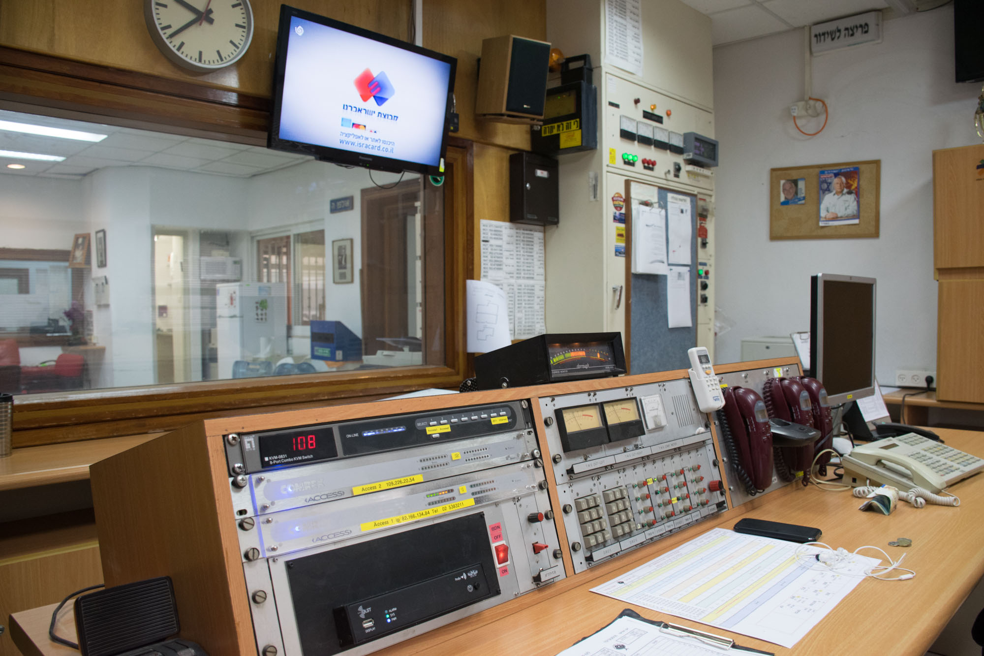 Reshet Bet Kol Israel Jerusalem